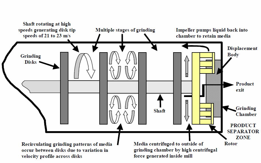 Drawing of an IsaMill, showing the internal flow patterns of the grinding medium and the slurry particles that are being ground.